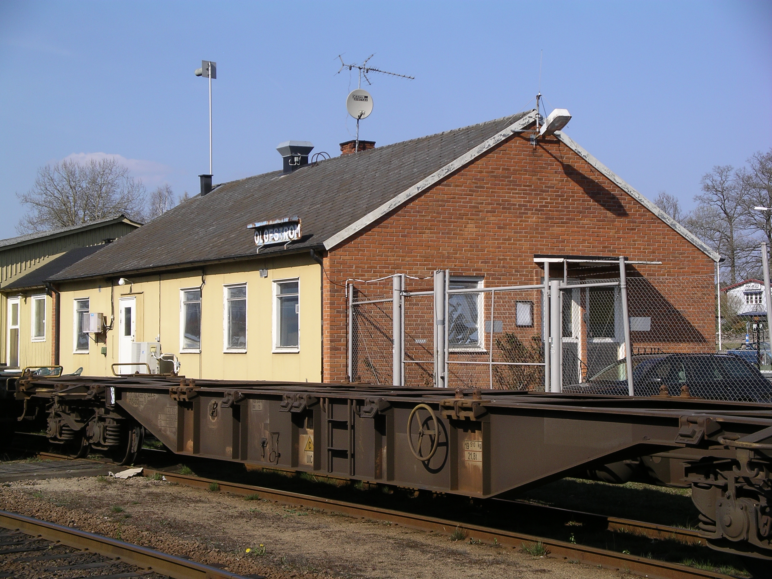 Railway station Olofström in Sweden